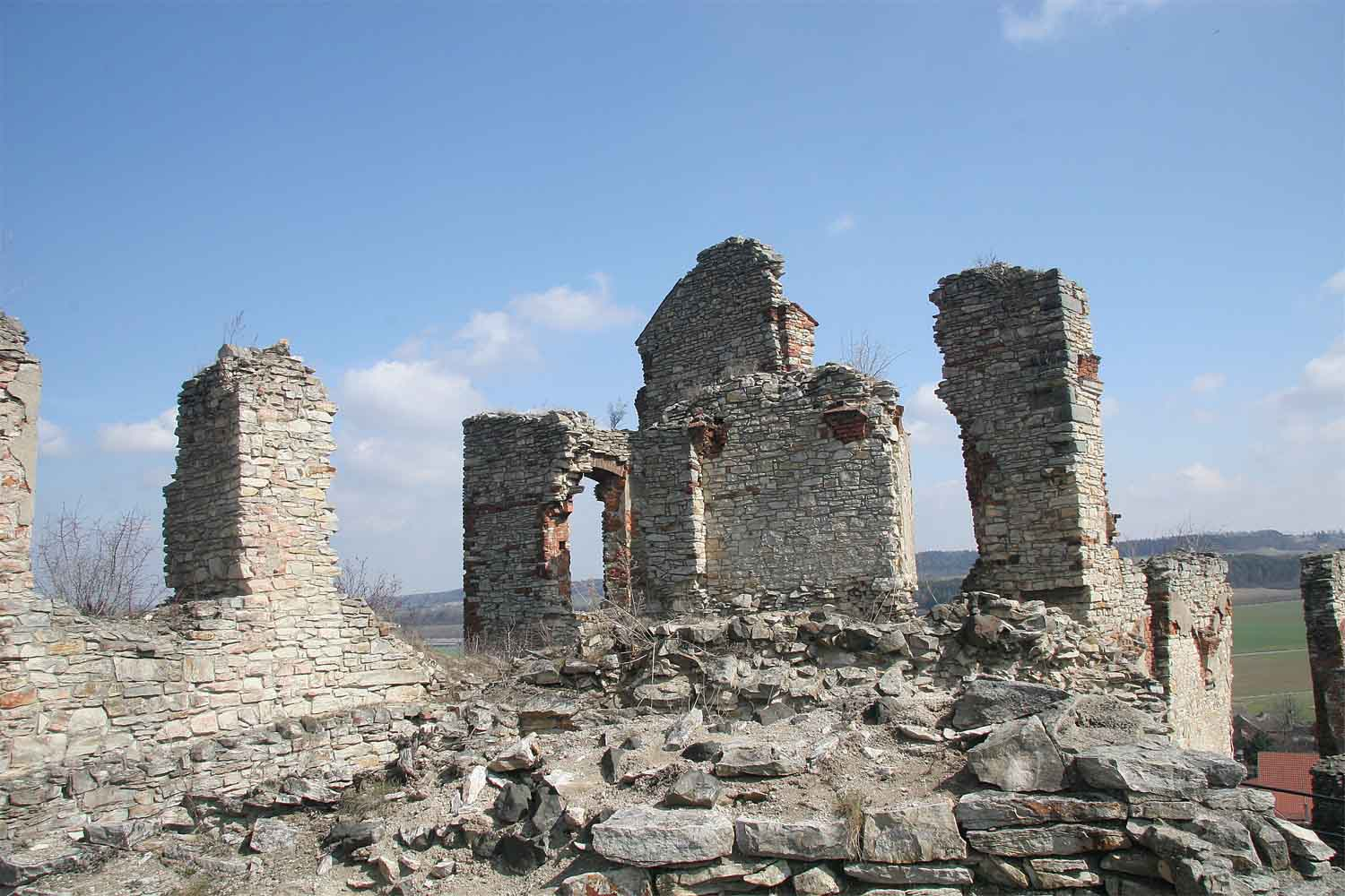 Košumberk Castle ruin